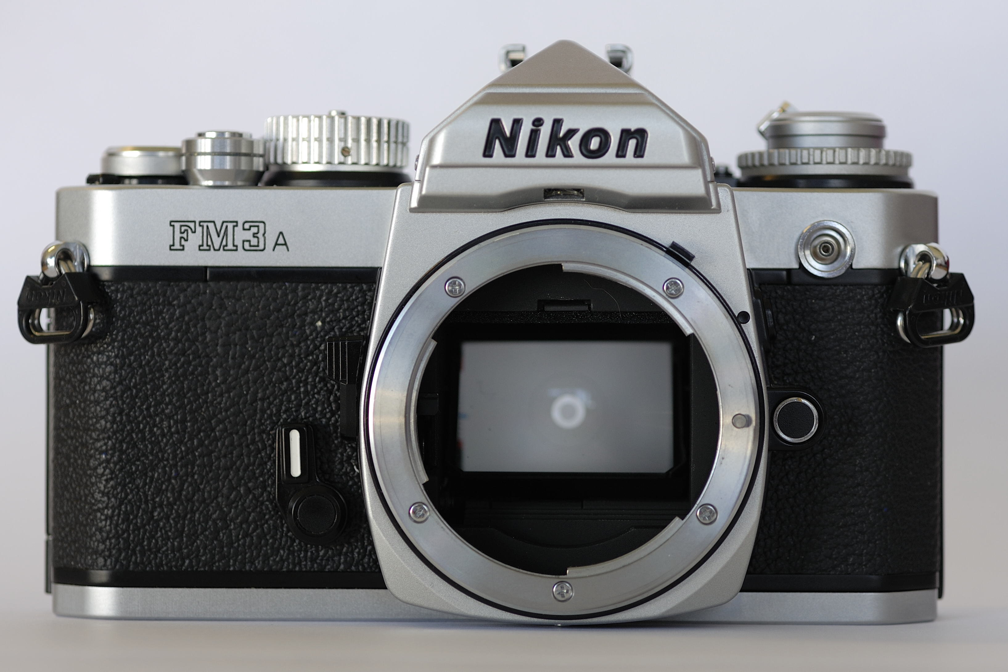 Nikon FM3A film SLR camera